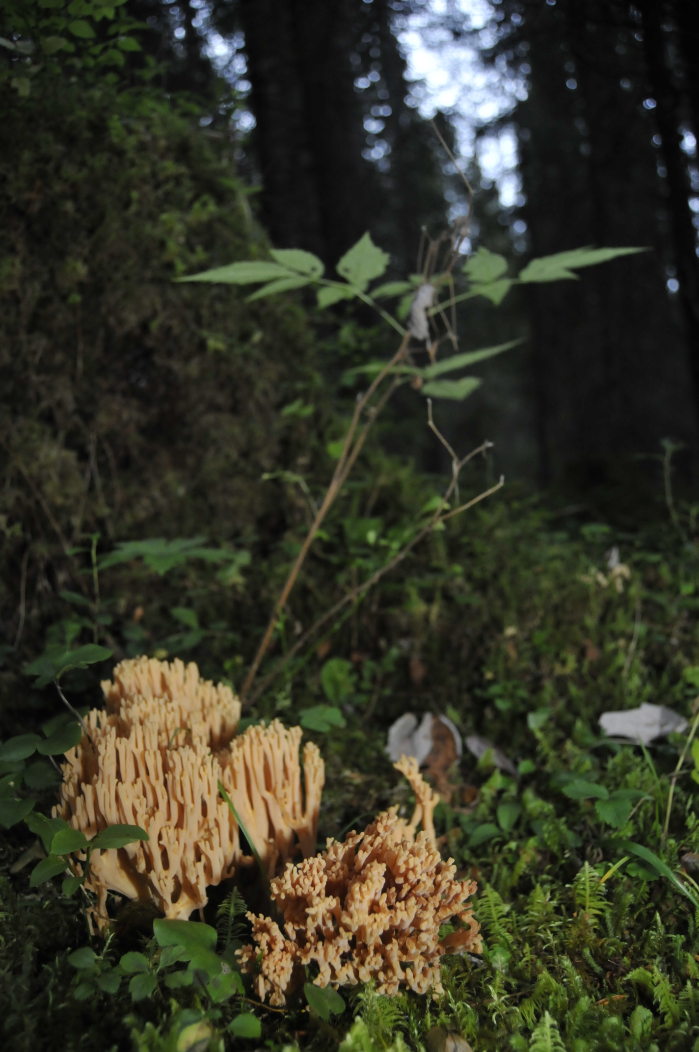 Slåtthornets nature reserve, Jämtland, Sweden